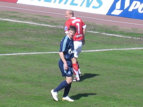 Denis Boyarintsev (7) & Andrei Arshavin. 2006 Russian Premier League (FC Zenit St.Petersburg v.s. FC Spartak Moscow)